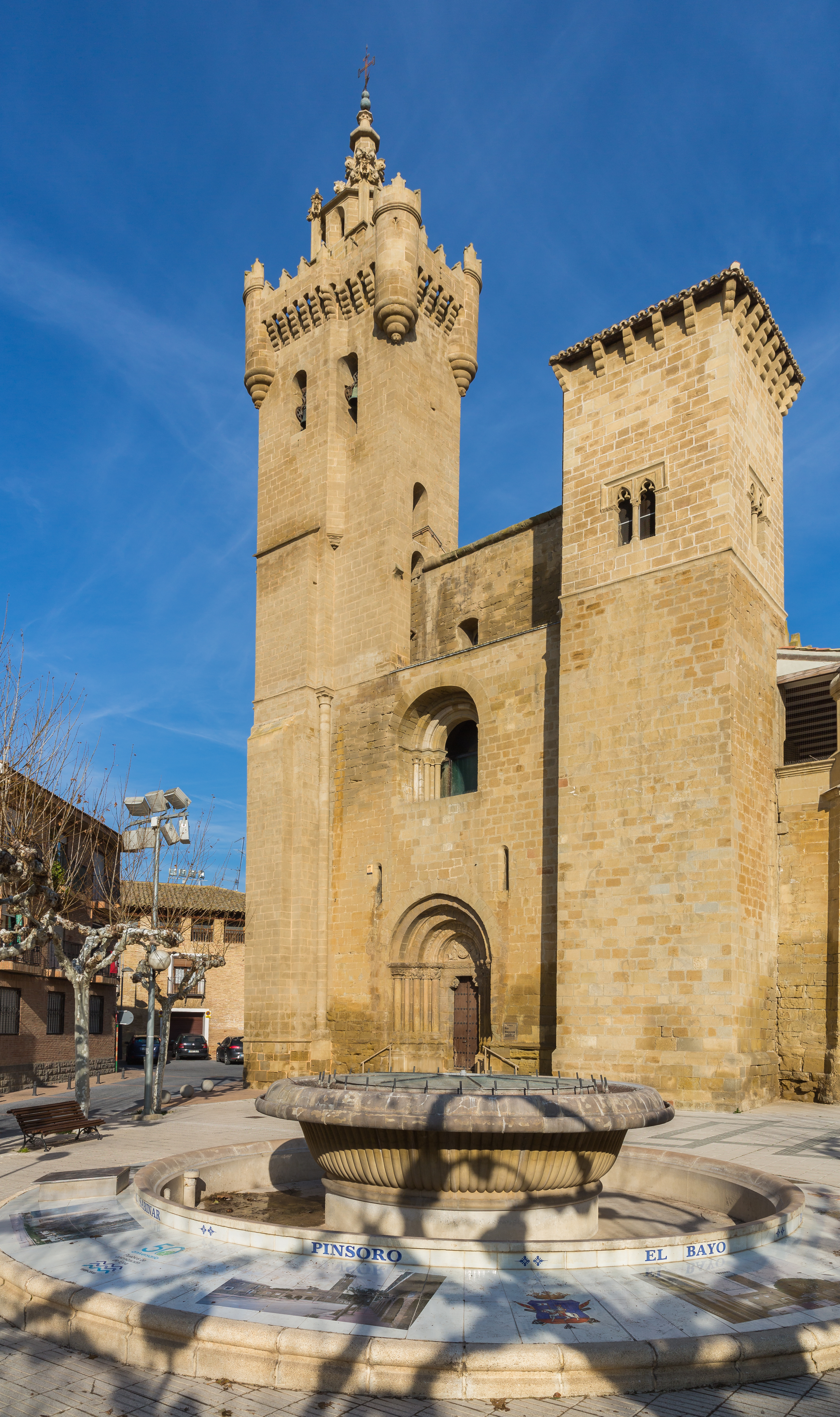 Church of San Salvador, Ejea de los Caballeros, Zaragoza, Spain